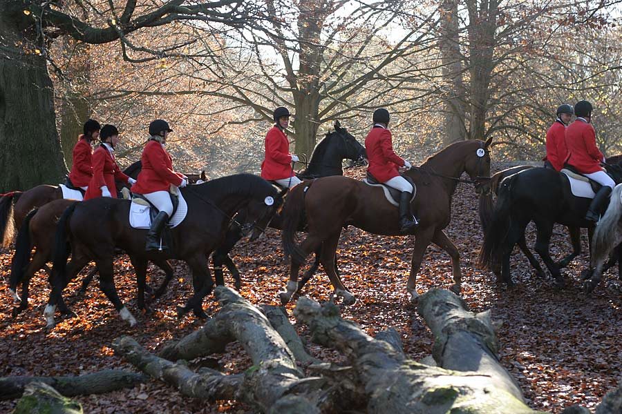 Picture from the traditional Hubertusjagt horse race in Jægersborg Dyrehave north of Copenhagen, Denmark.